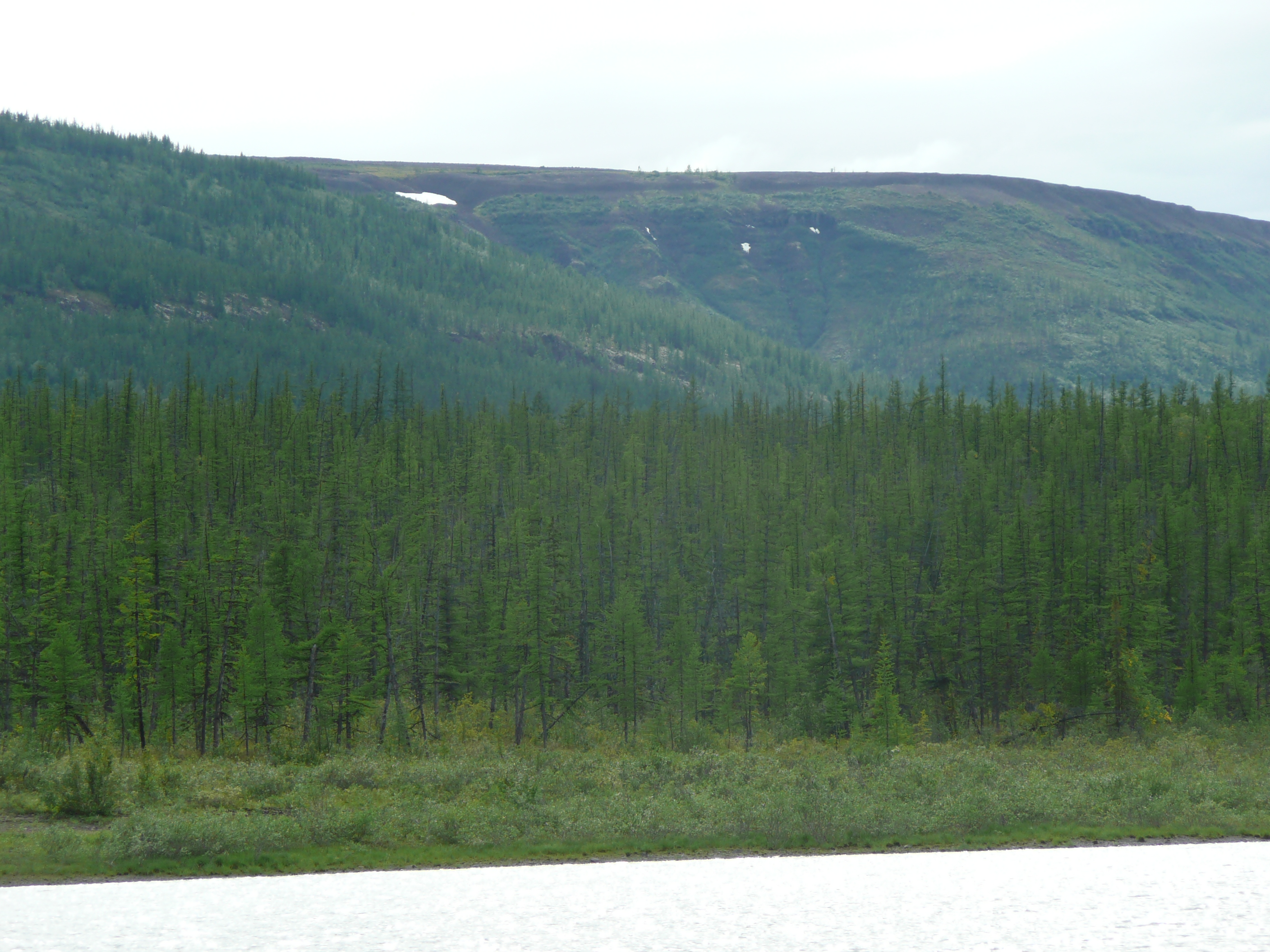 On Toungouska